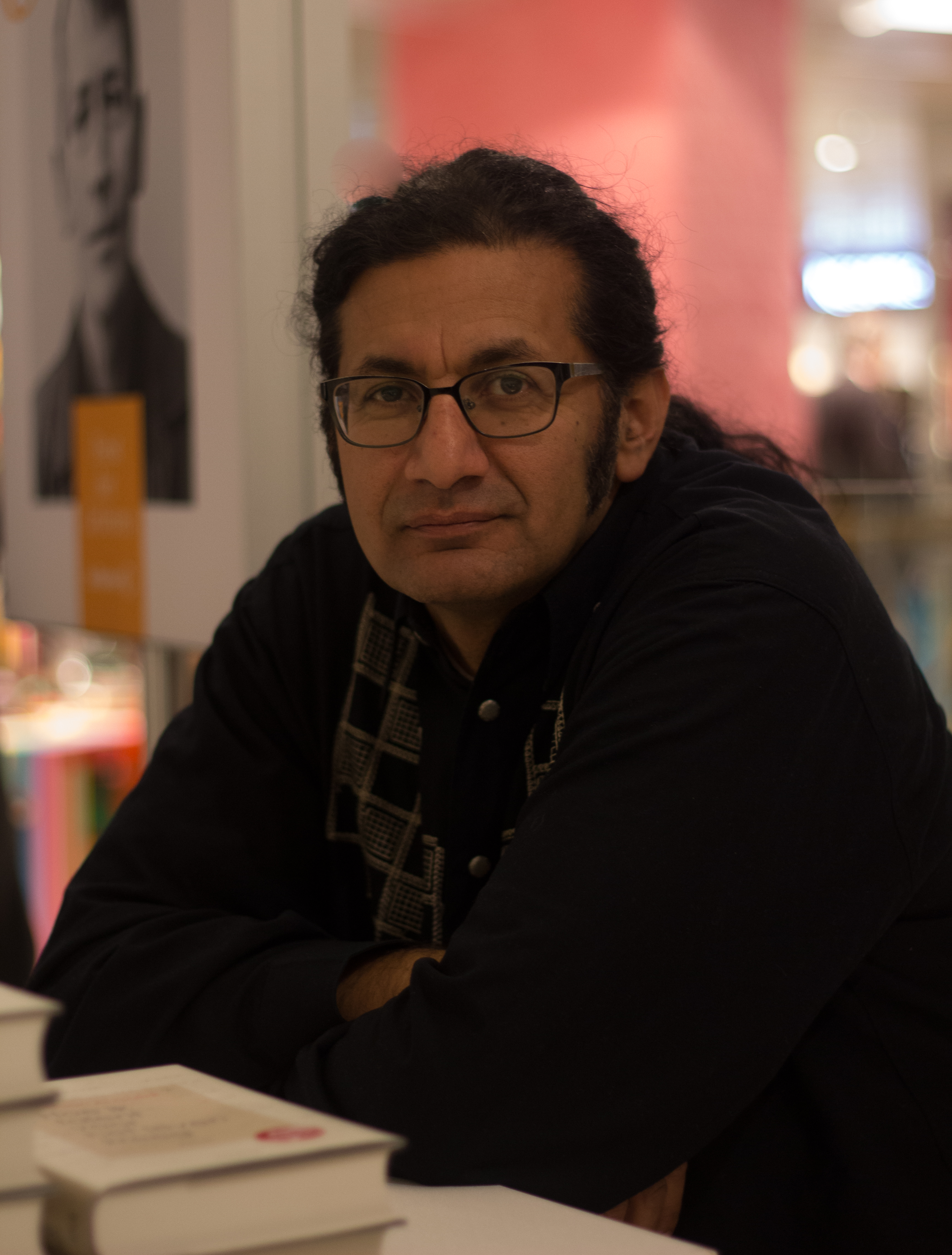 Rodaan Al Galidi at Feest der Letteren 2016